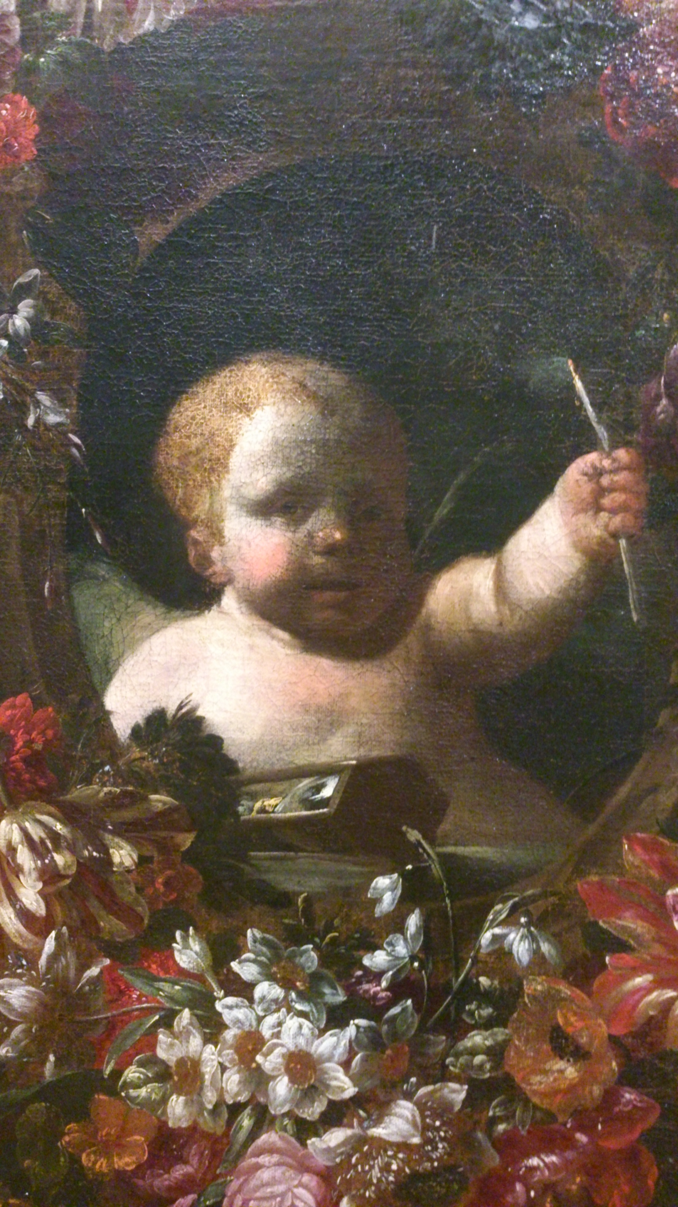 Allegory of Vanitas